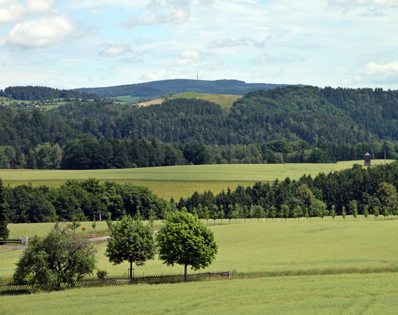 Ungerberg (538 metres) in the Lusitanian Highlands, seen from the lookout-tower in Rathmannsdorf in the Saxon Switzerland.